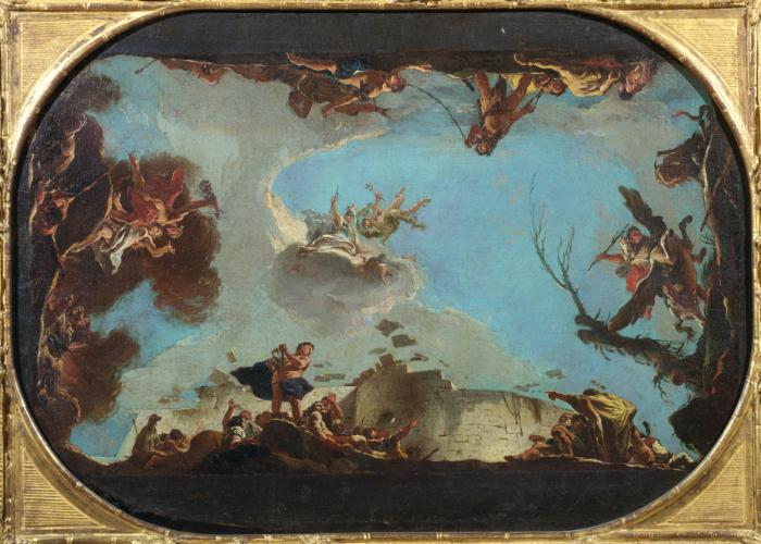 Allegory of the Power of Eloquence